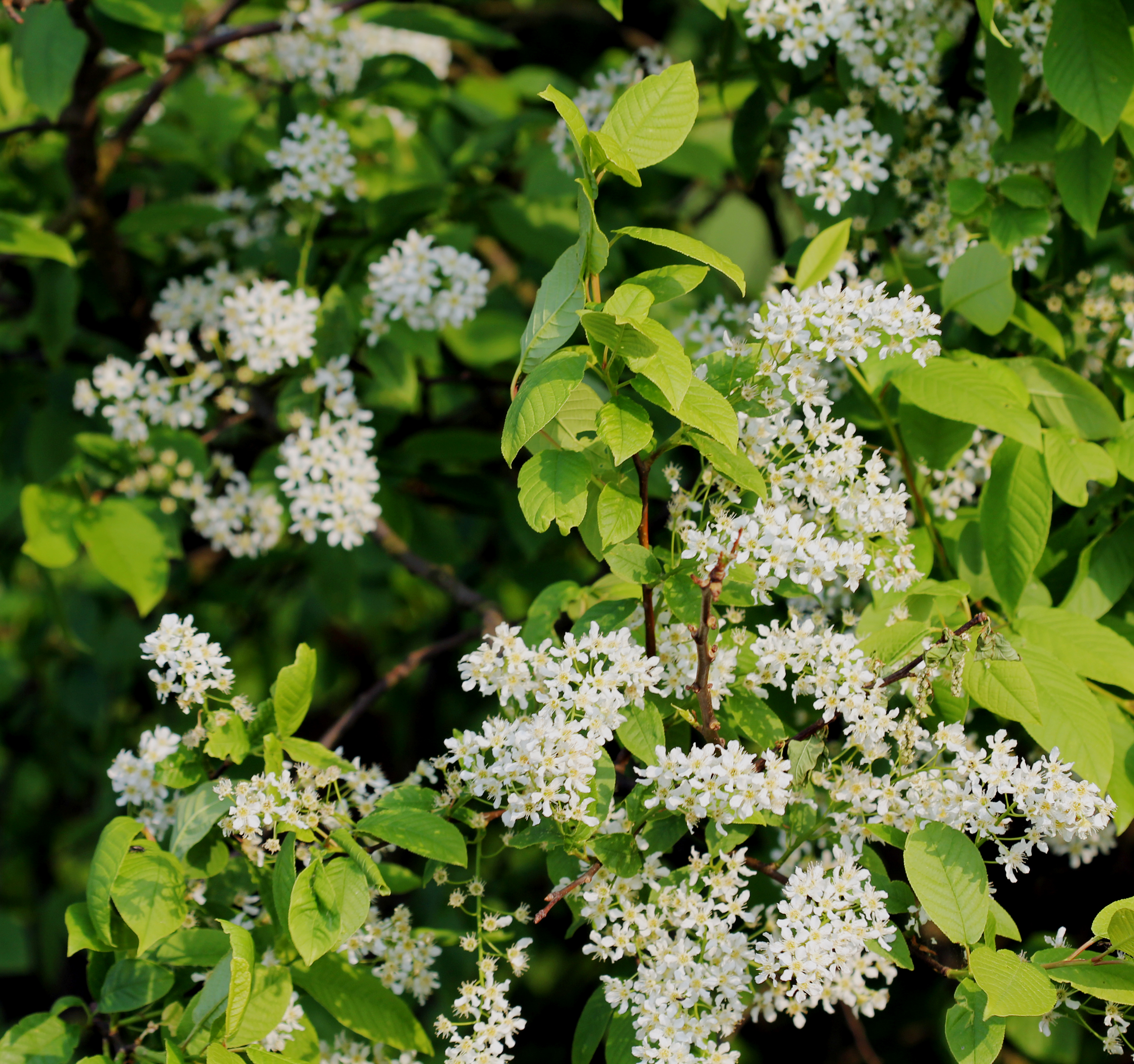 Flower of tree Prunus padus, east Bohemia, Czech Republic